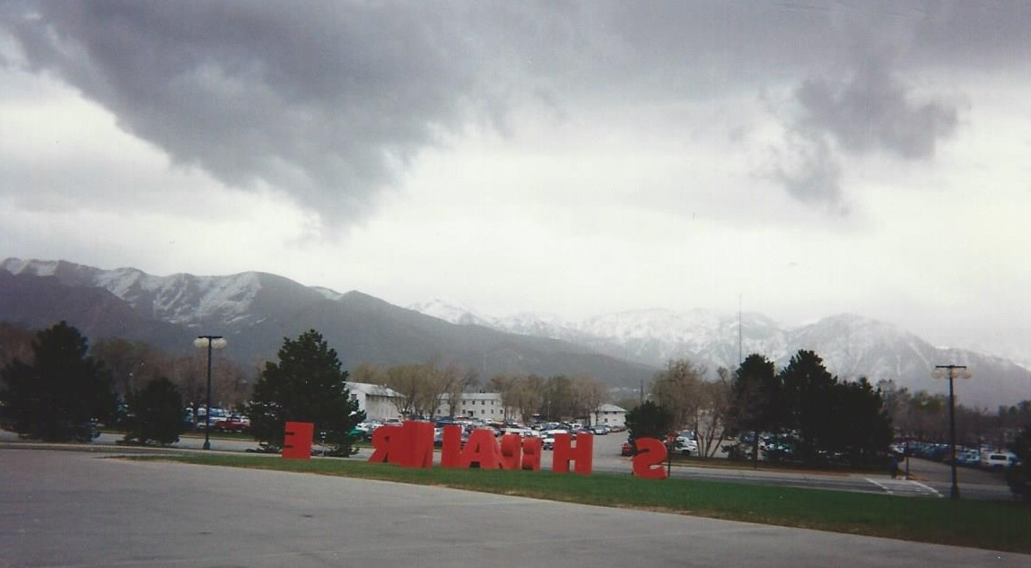 The letters display for the Novell BrainShare technical conference, 1995 edition, held on the campus of the University of Utah. The Wasatch Range is seen in the background.